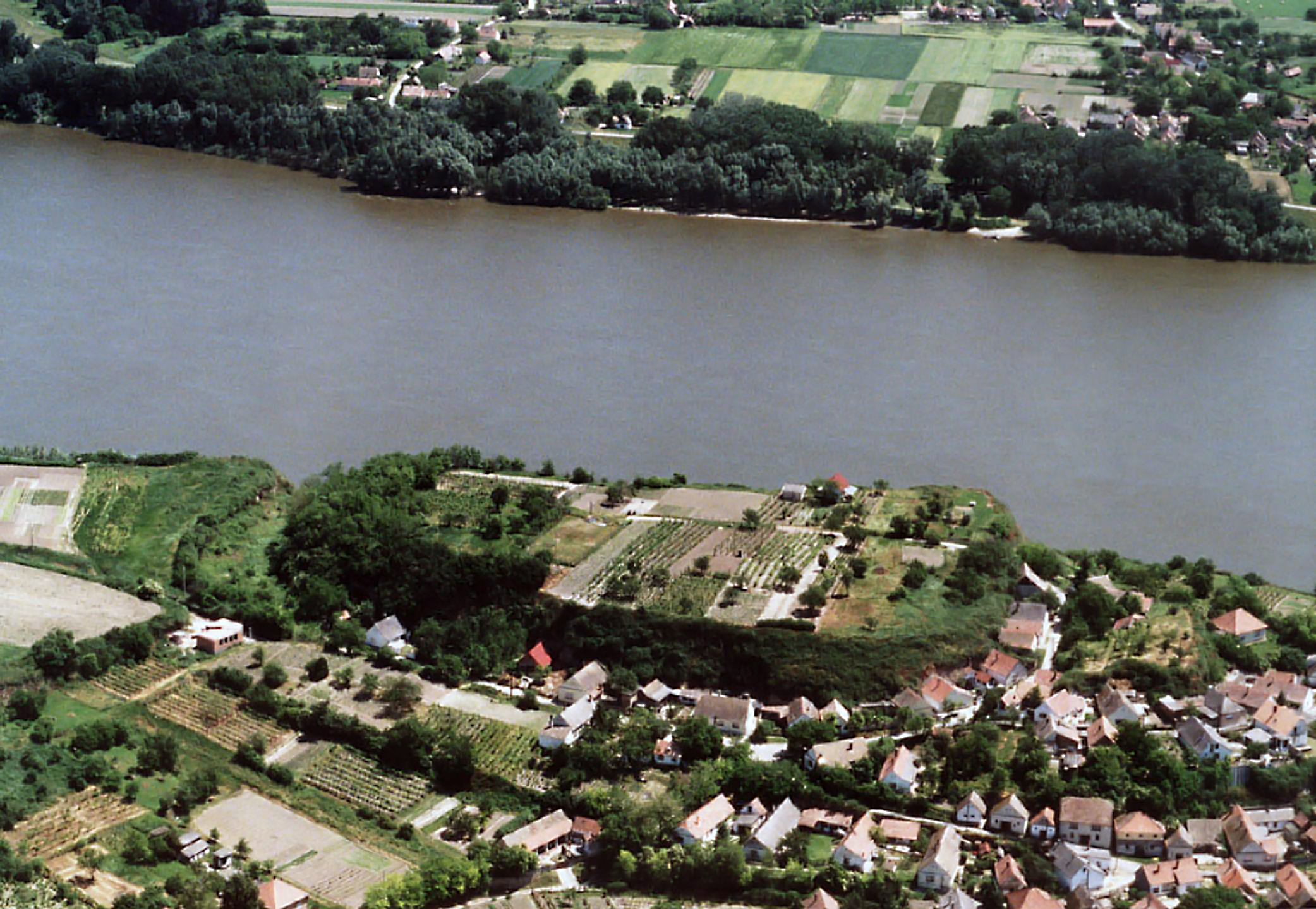 Dunaszekcső - Hungary - Europe